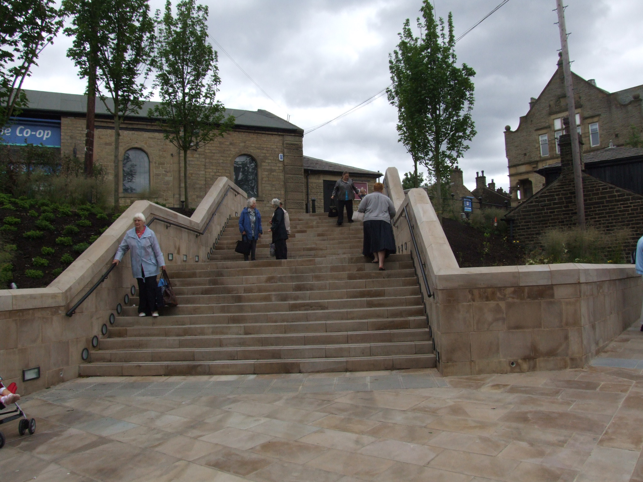 Glossop is a village in Derbyshire on the edge of Greater Manchester. Henry Street staircase from Norfolk Square to the Station.